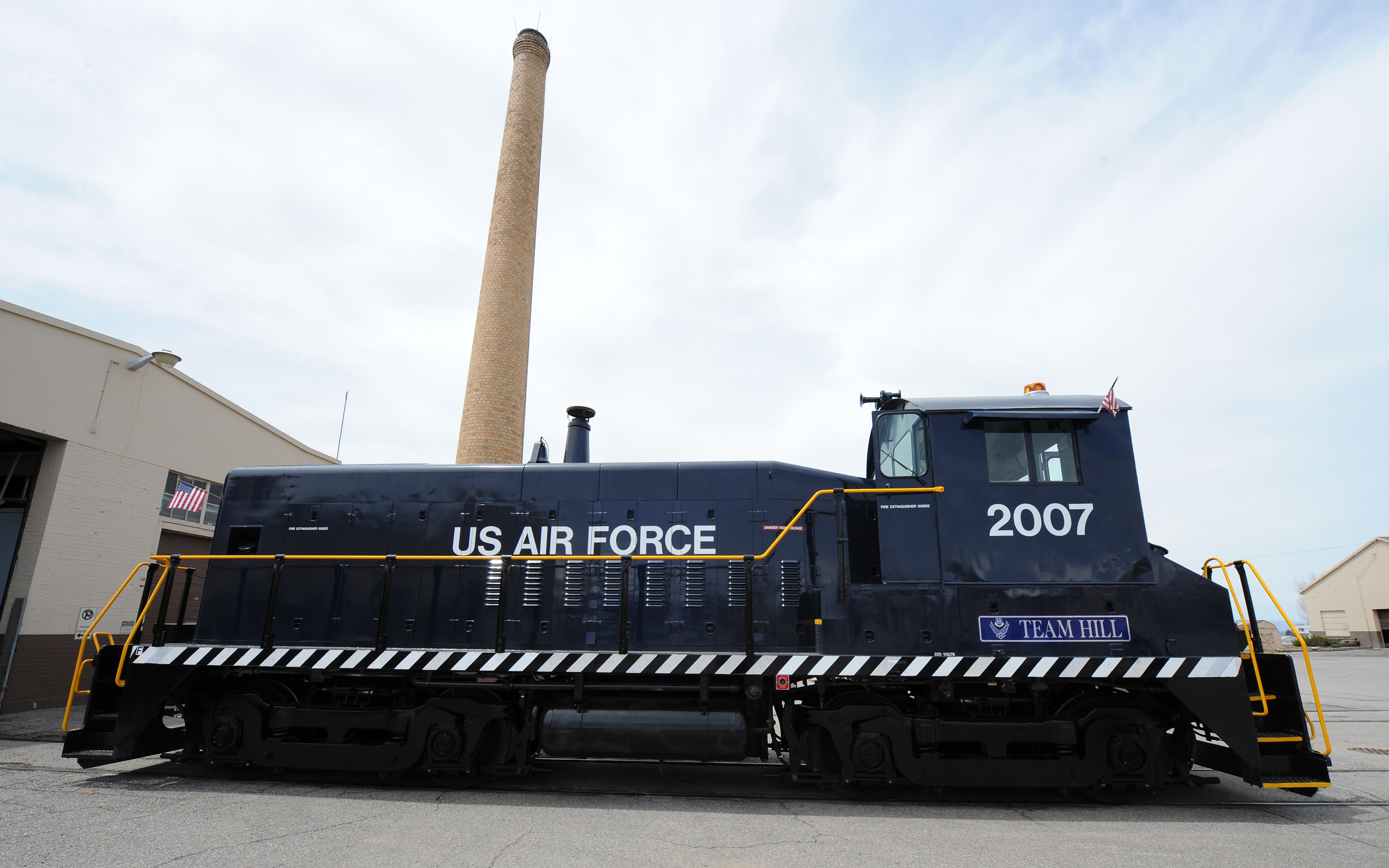 EMD SW8 Diesel-Electric locomotive No. 2007 sits outside the rail barn awaiting its final run on the rails at Hill Air Force Base, Utah, May 6. Engine No. 2007 along with EMD SW8 No. 2000 have been working the rails at Hill AFB for the past four years moving Minuteman Missiles on and off the base. VIRIN:110506-F-EI321-075 Location:HILL AIR FORCE BASE, UT, US